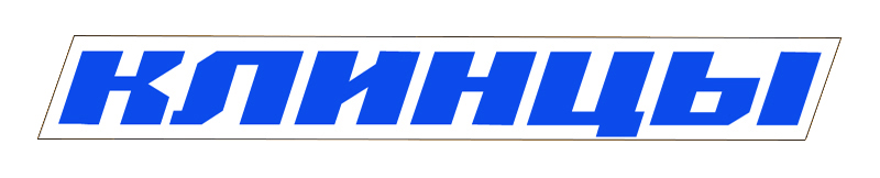 Логотип автокранов КЛИНЦЫ